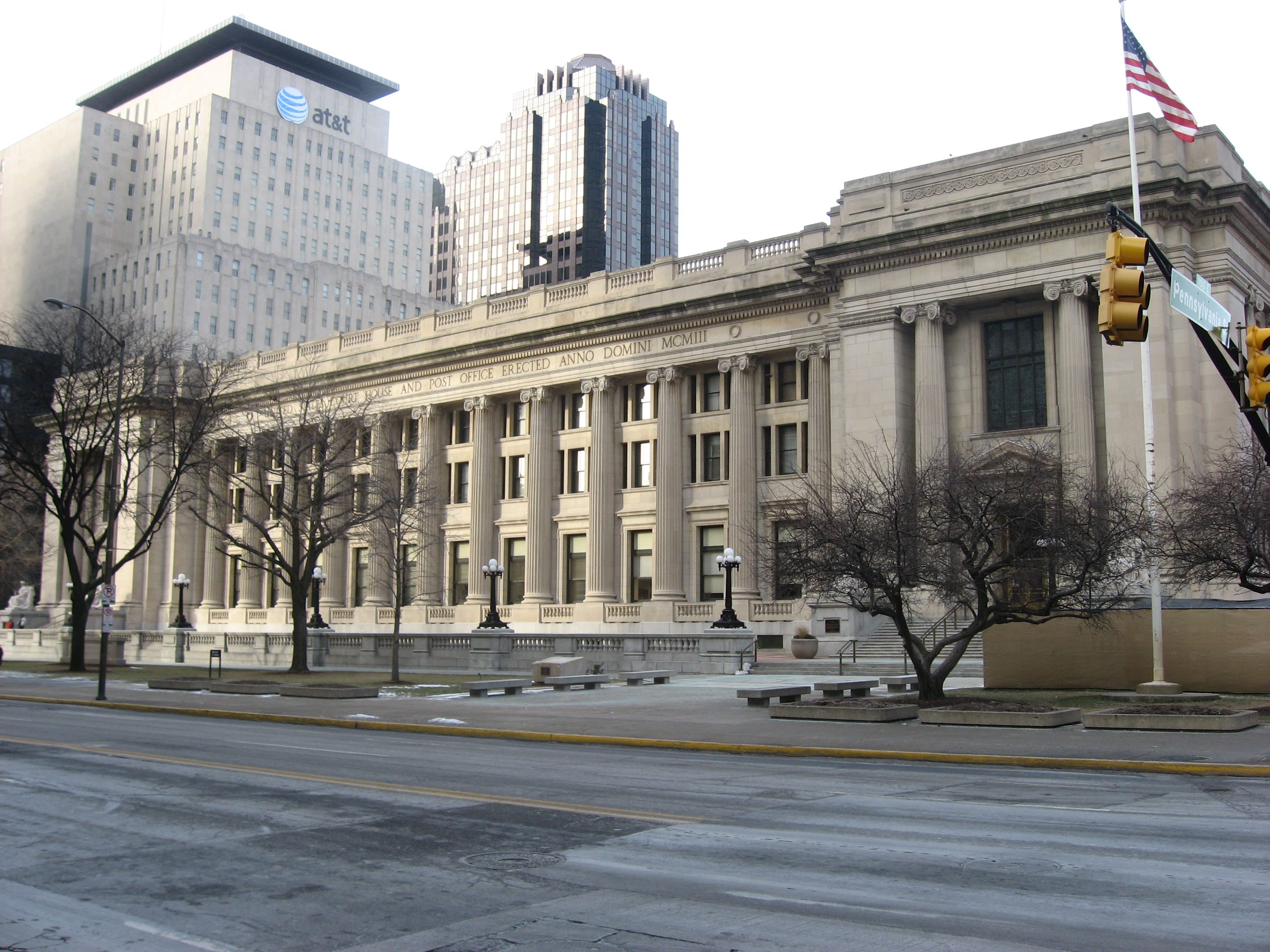 Southern front of the Birch Bayh U.S. Courthouse and Post Office, located at 46 E. Ohio Street in downtown Indianapolis, Indiana, United States. Built in 1905, it is listed on the National Register of Historic Places.